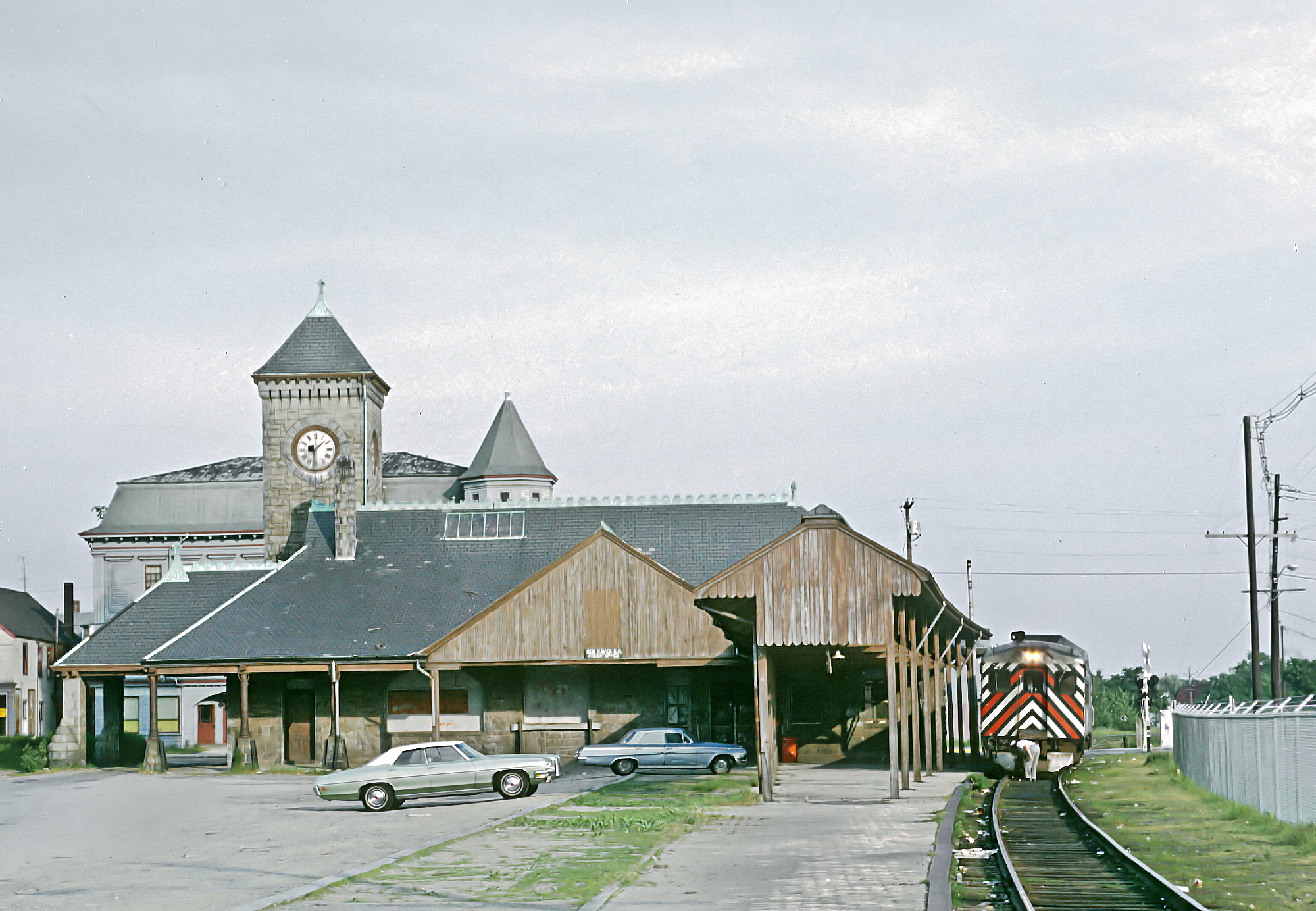 A Penn Central (ex-New Haven) RDC at Stoughton in July 1971